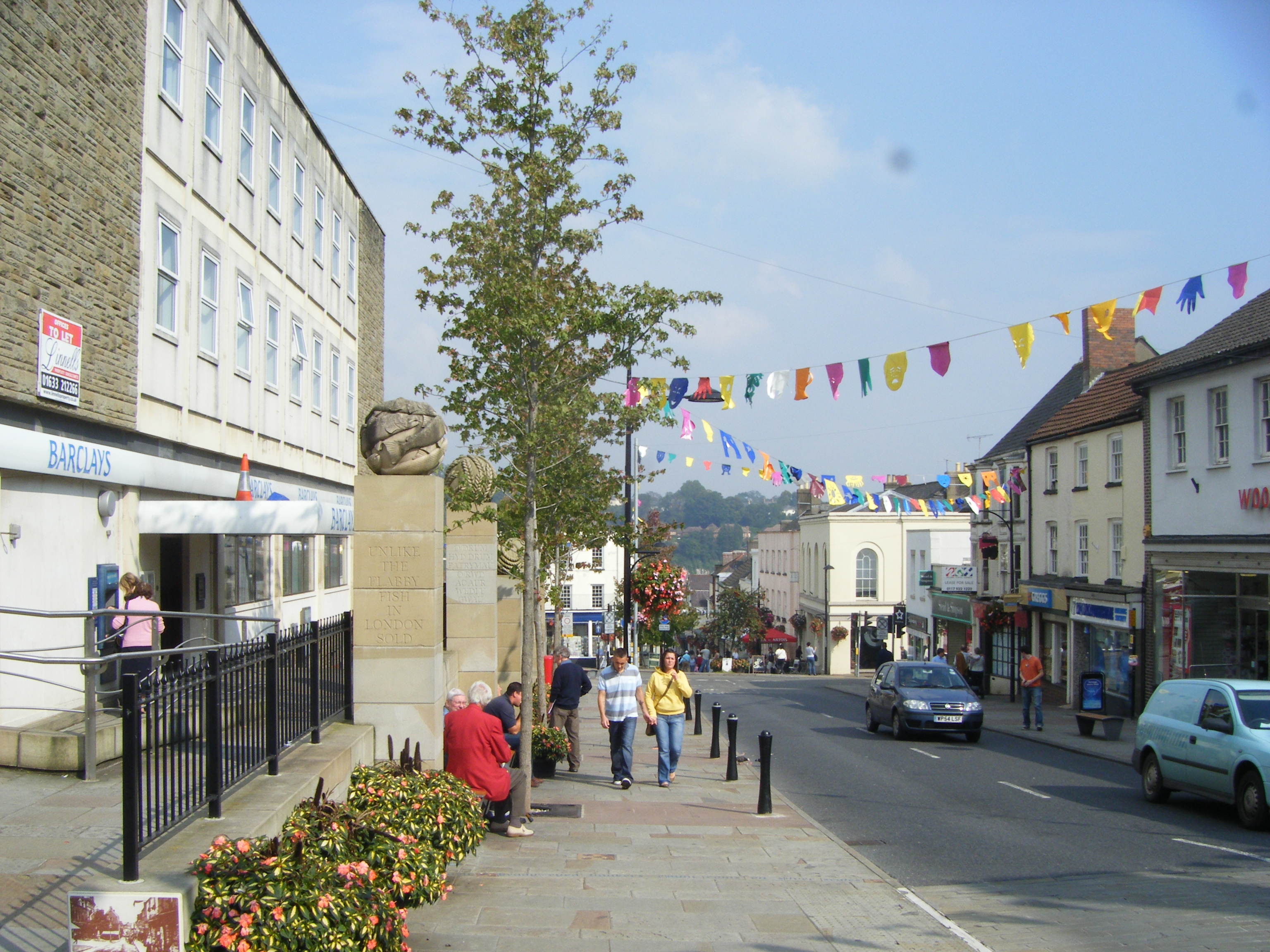 Photograph of Chepstow High Street